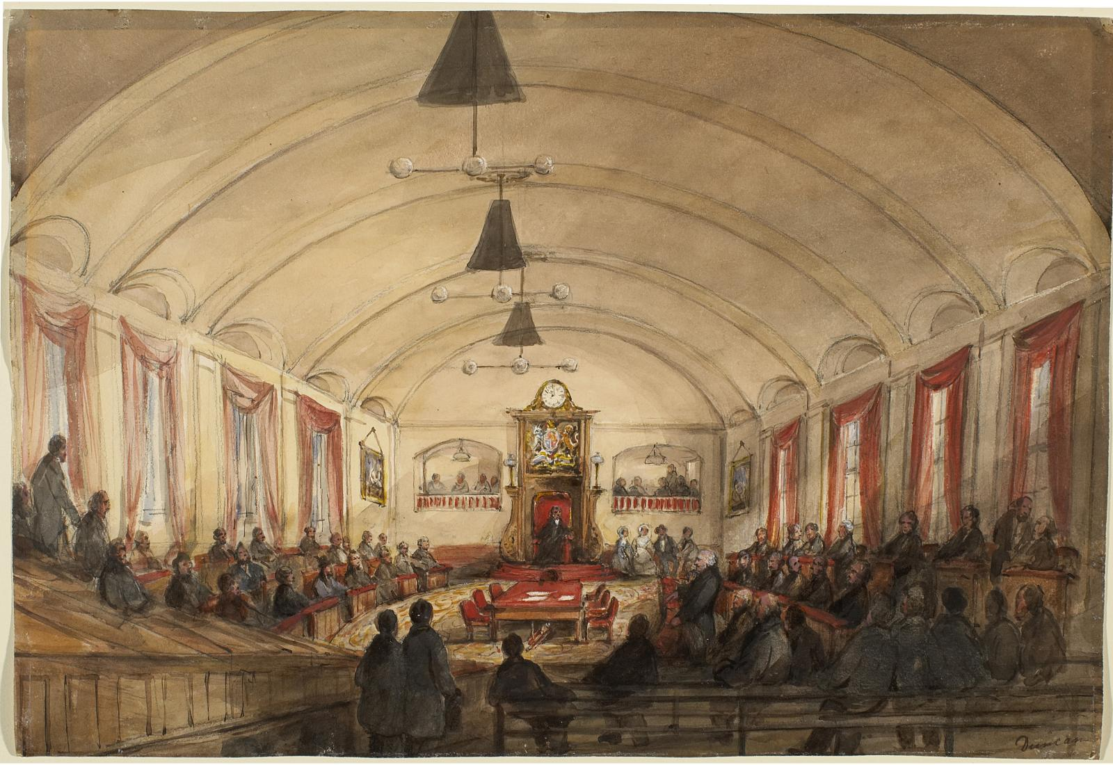 Interior of Parliament building at the Sainte-Anne Market before the fire, in Montreal, 1848.